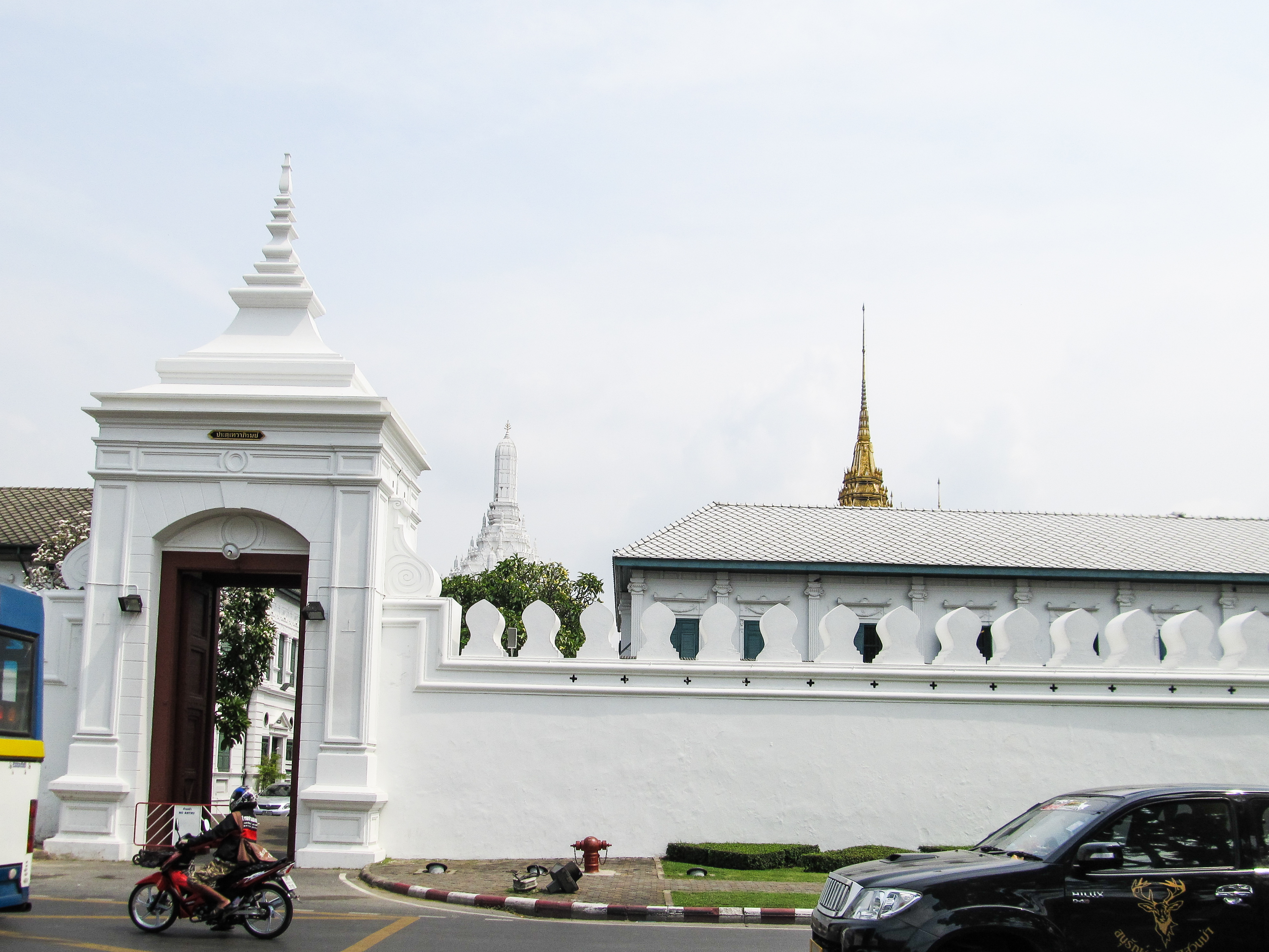 Bangkok